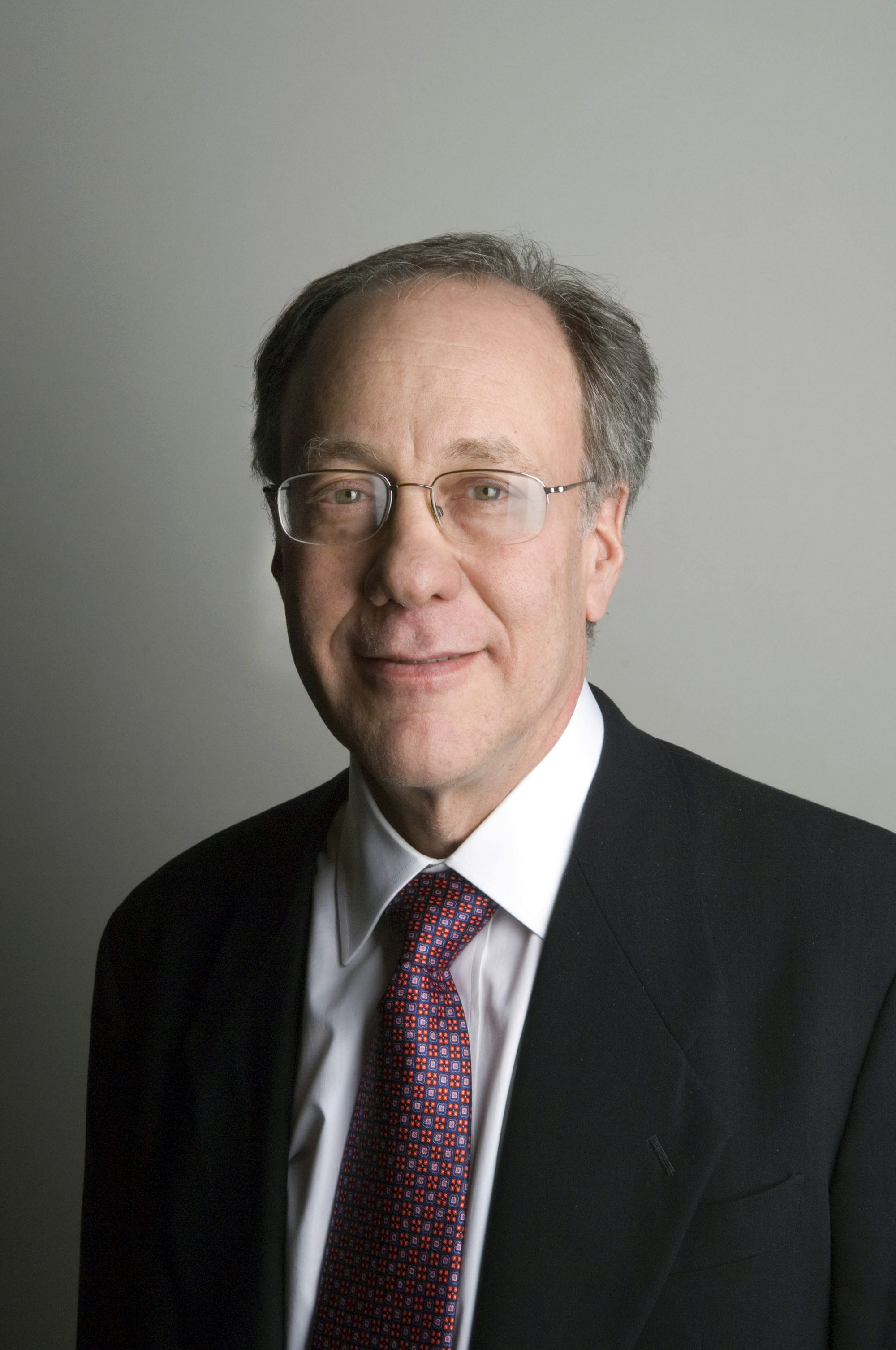 Roger Bruce Myerson (born March 29, 1951) is an American economist and co-winner, with Leonid Hurwicz and Eric Maskin, of the 2007 Nobel Prize in Economics "for having laid the foundations of mechanism design theory."